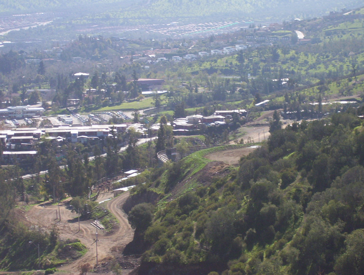 Medialuna ( Chilean rodeo'splace) at lo Barnechea